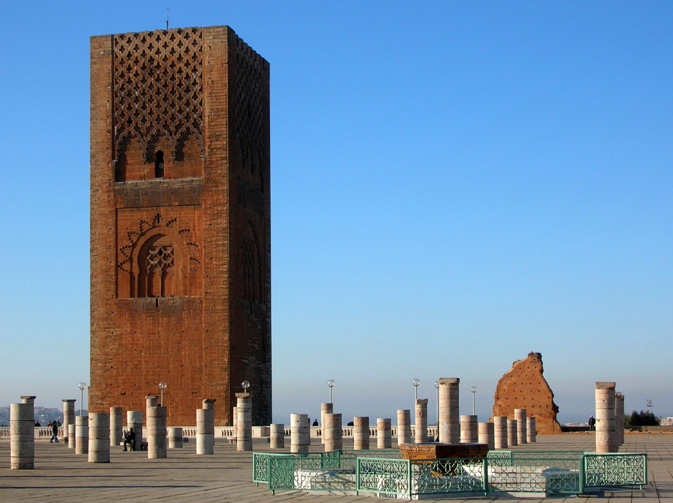 Hassan Tower, Rabat, Morocco